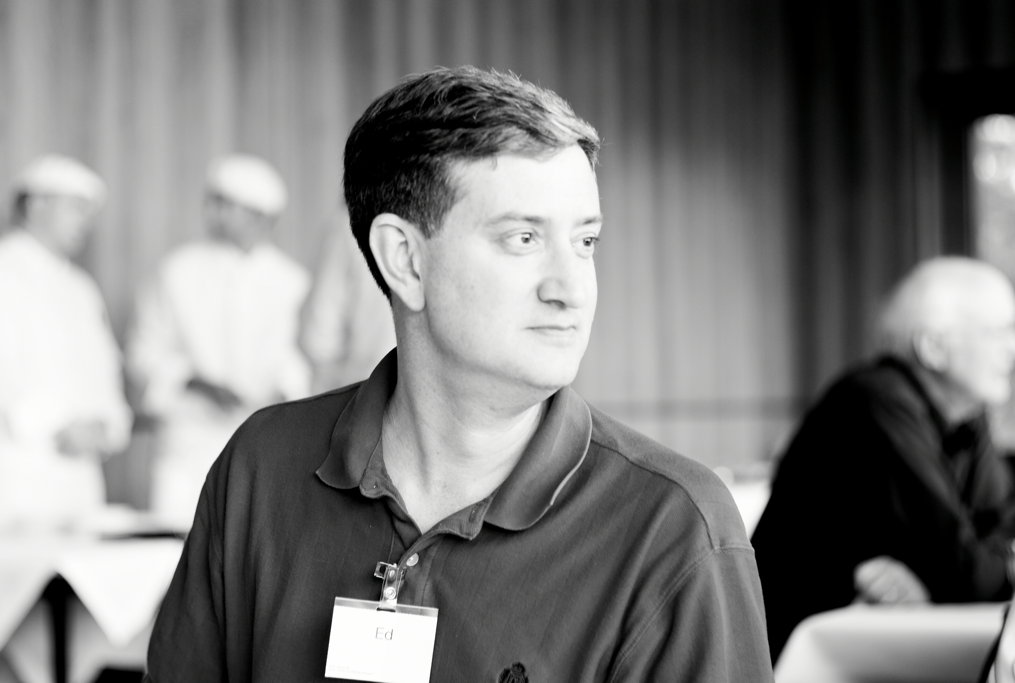 Ed Felten